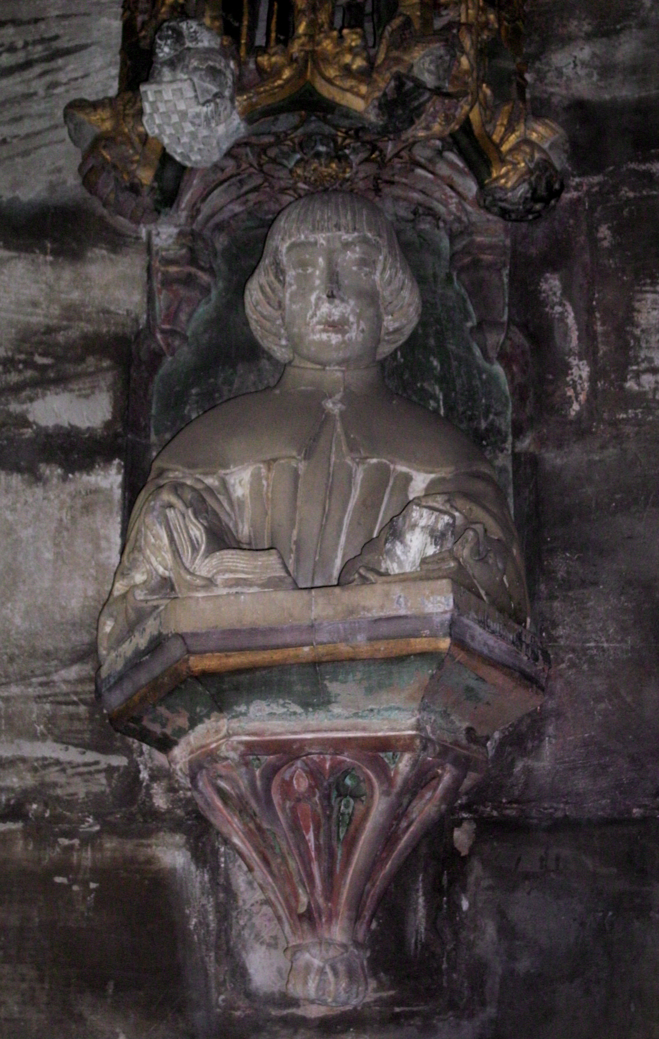 Arthur Vernon, priest and son of AnneTalbot and Henry Vernon. Memorial in St Bartholomew's Church, Tong, Shropshire.